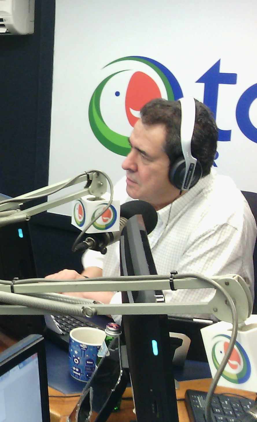 Colombian journalist Edgar Artunduaga at Todelar Radio